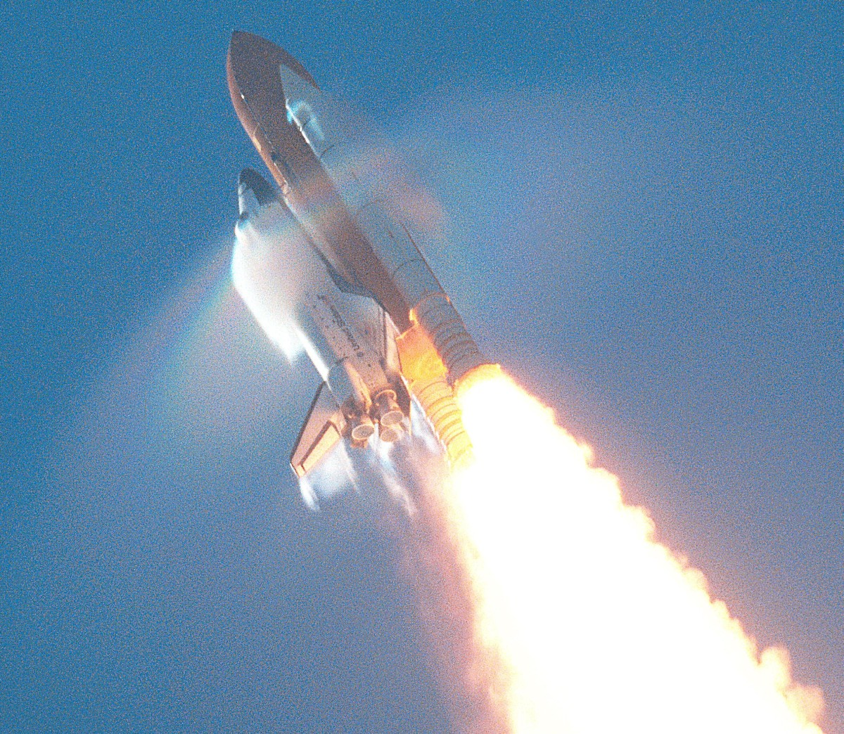 This view of the shock wave condensation collars backlit by the sun occurred during the launch of Atlantis on STS-106 and was captured on an engineering 35mm motion picture film. One frame was digitized to make this still image. Although the primary effect is created by the Orbiter forward fuselage, secondary effects can be seen on the SRB forward skirt, Orbiter vertical stabilizer and wing trailing edges (behind SSME's).